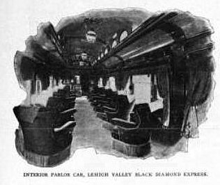 Illustration from 1899 of a parlor car from the Black Diamond, operated by the Lehigh Valley Railroad.